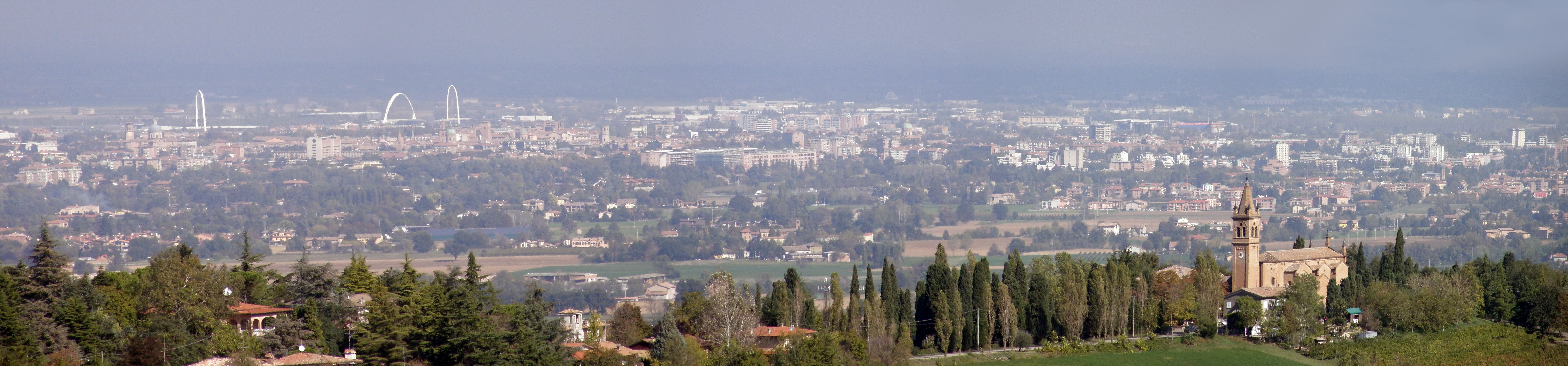 Reggio Emilia - Montericco, Albinea, Reggio Emilia, Italy